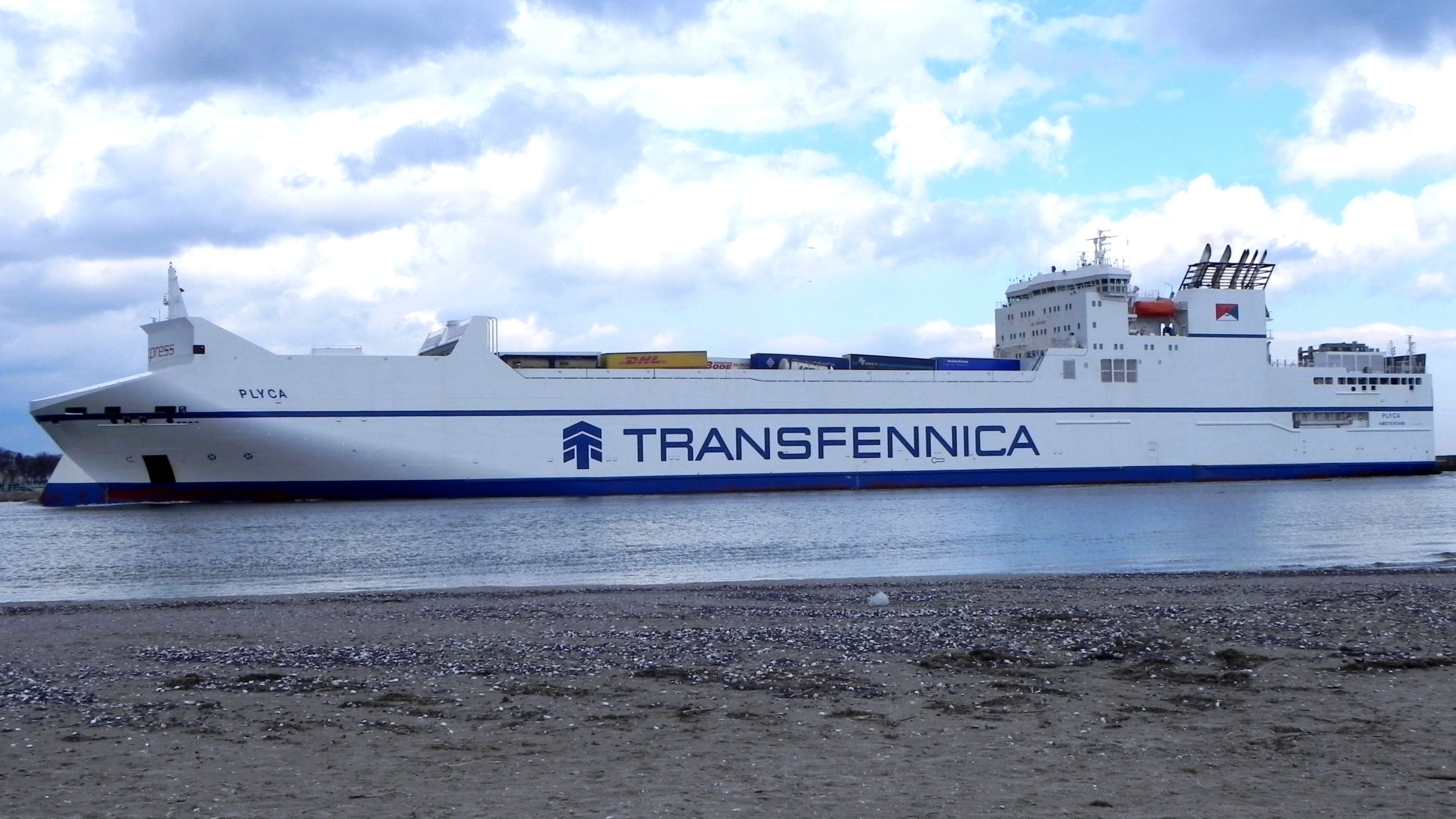 Plyca in Travemünde